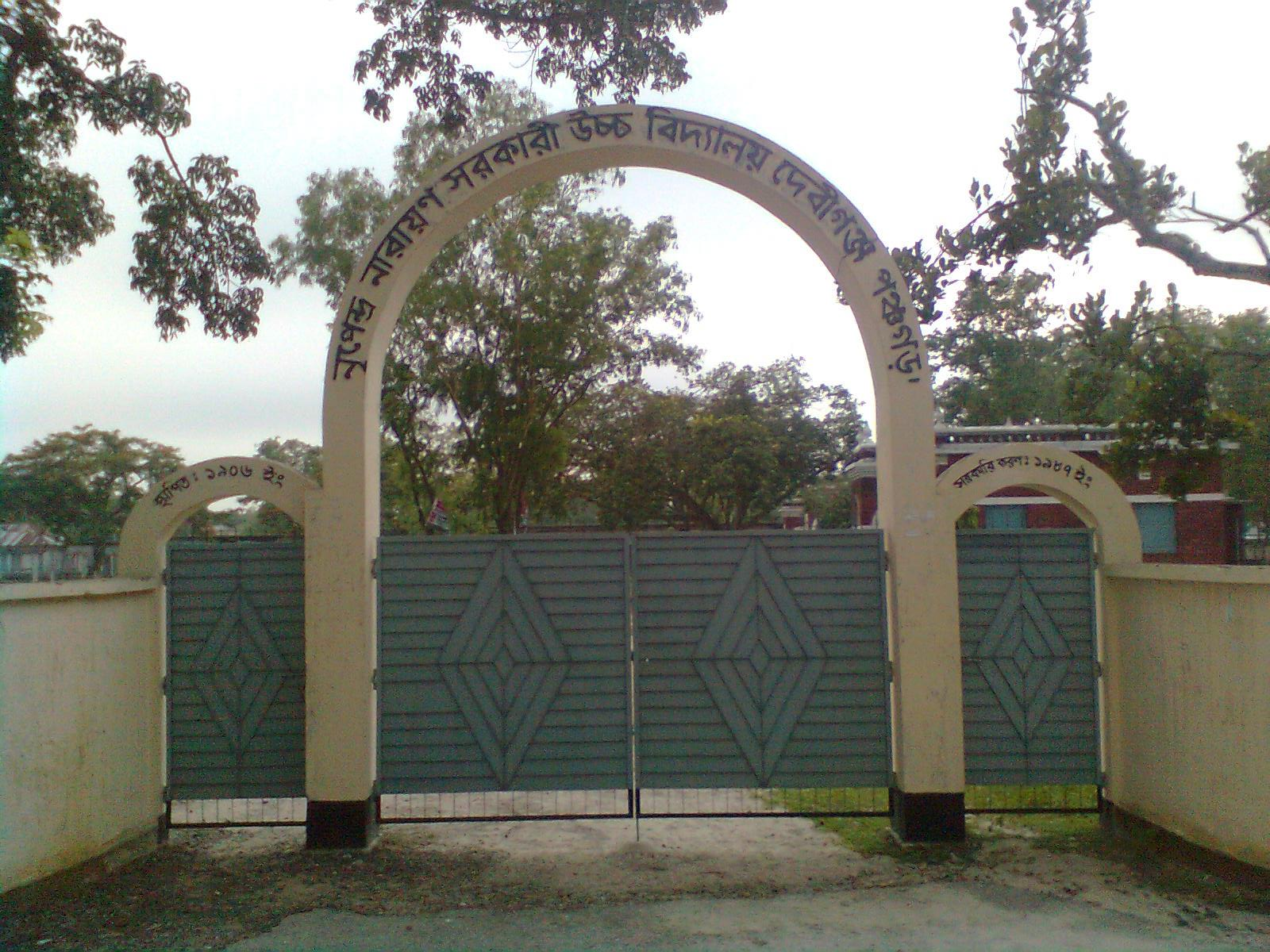 Nripendra Narayan Govt. High School